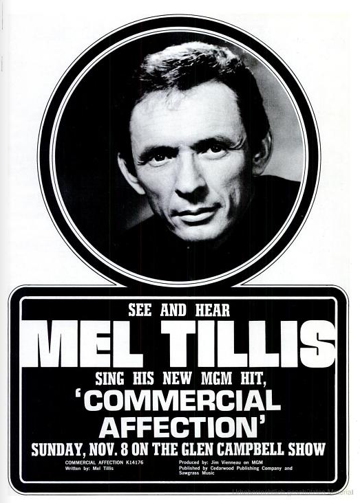 See and hear Mel Tillis on The Glenn Campbell Show, 1970